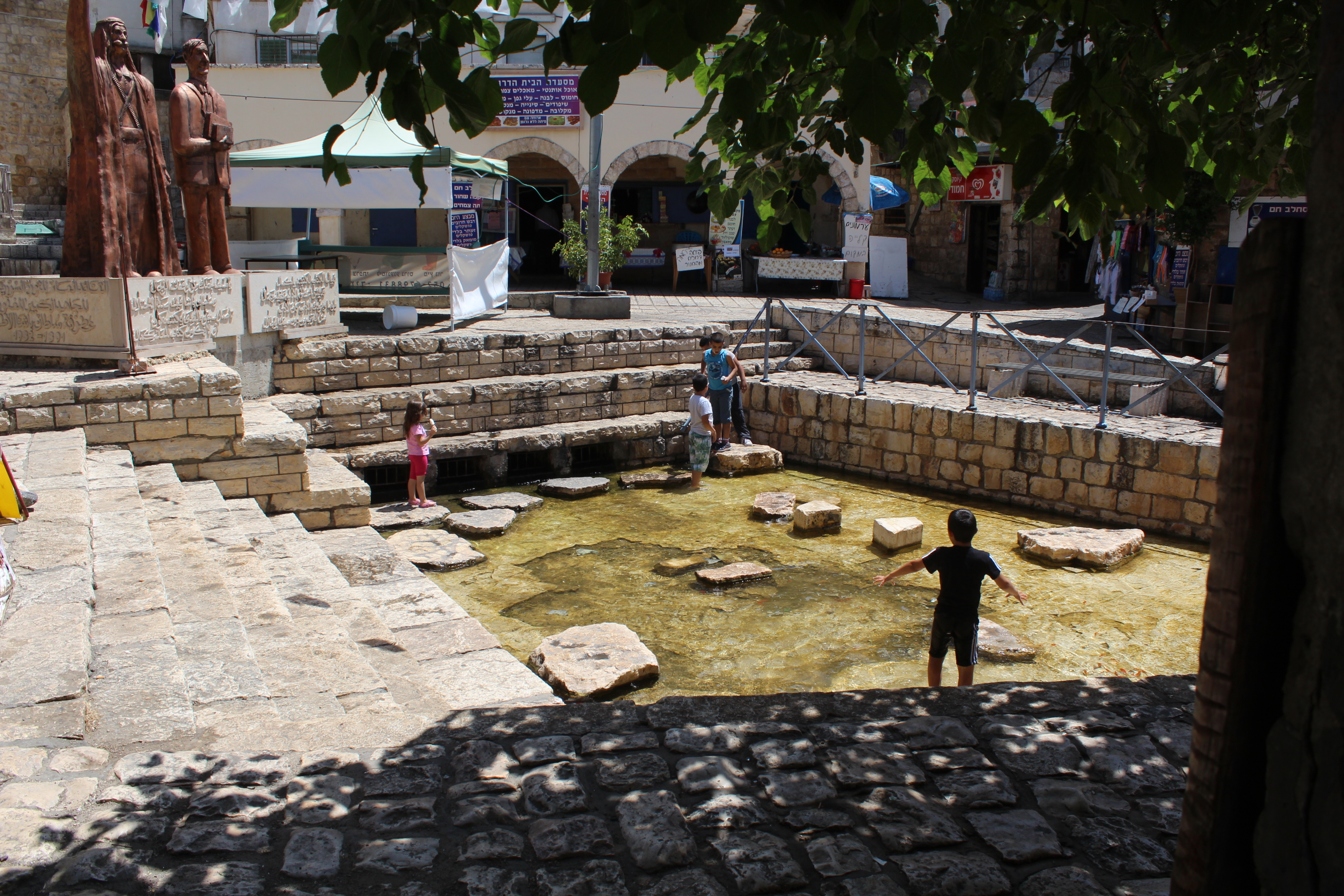 Peki'in spring square, Peqi'in, Israel This image was taken as part of the Elef Millim project trip to Beit Zinati, in Peki'in which was held on Friday, 10th June 2016. To view all images uploaded as part of the Elef Millim Project